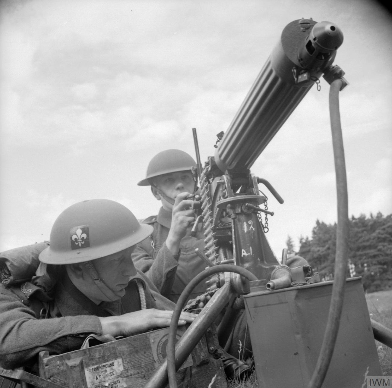 The British Army in the United Kingdom 1939-45 Men of the Manchester Regiment manning a Vickers machine-gun, Southern Command, 16 August 1941.